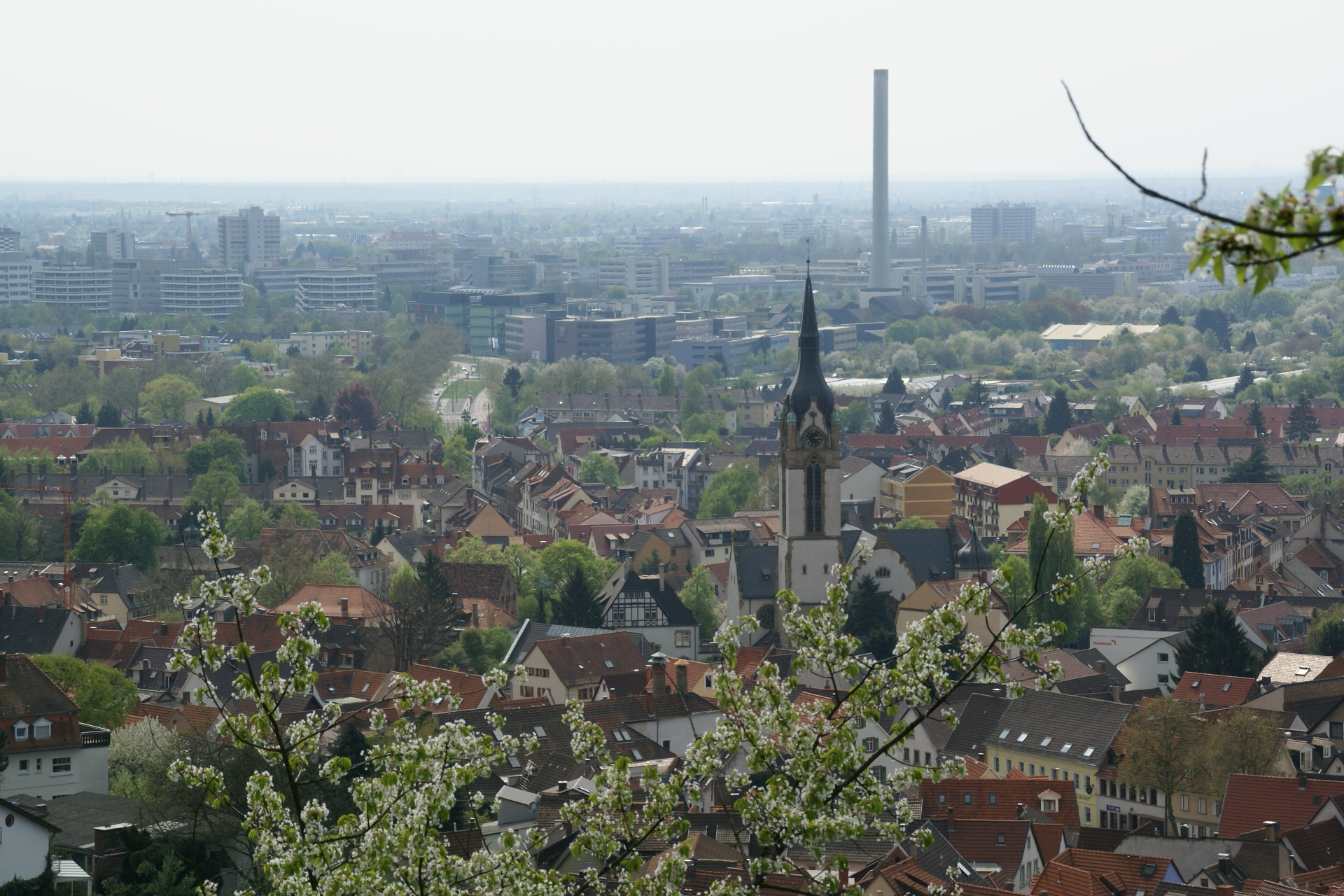 Friedenskirche in Heidelberg-Handschuhsheim, Germany